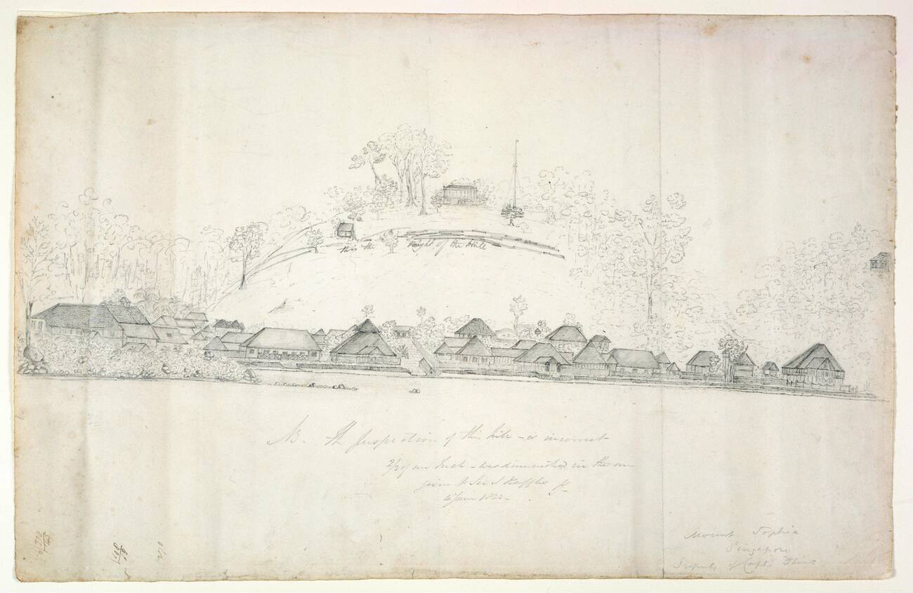 The earliest known drawing of a view of Singapore, sketched by Lt. Phillip Jackson on 5 June 1823. The drawing shows buildings of Singapore near the seafront and on High Street as viewed from the sea, with the Raffles' residence on Fort Canning Hill (known then simply as The Hill) near a flag pole in the background. On the left is the inlet of Singapore River. This picture comes from the Drake collection of documents and personal effects of Stamford Raffles.